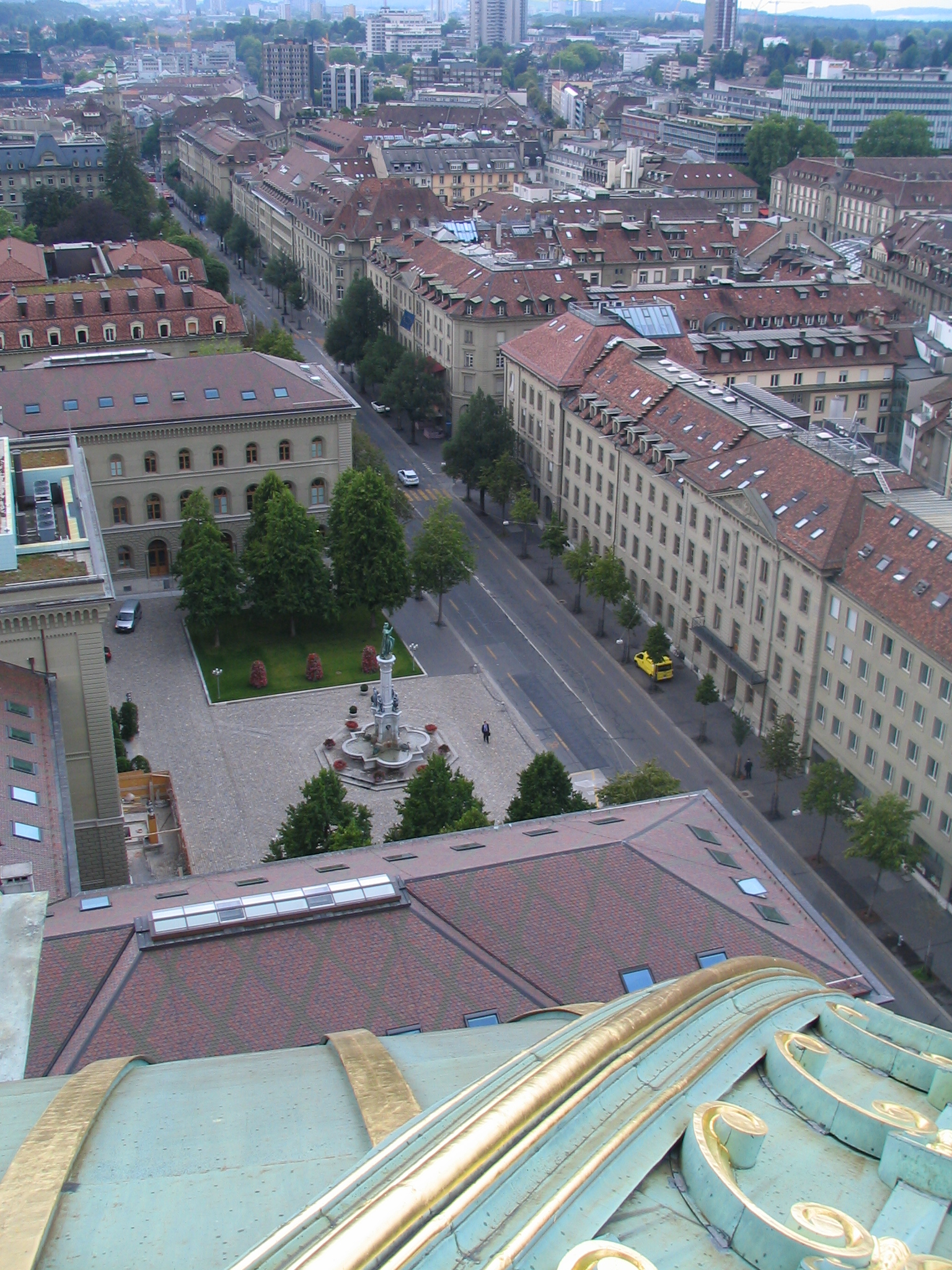 Bern: Bundesgasse and Bernabrunnen (fountain of Berna) seen from top of the parliament building